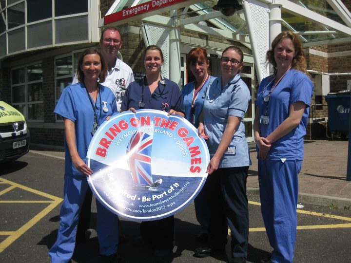 NHS staff celebrating the 2012 Olympics